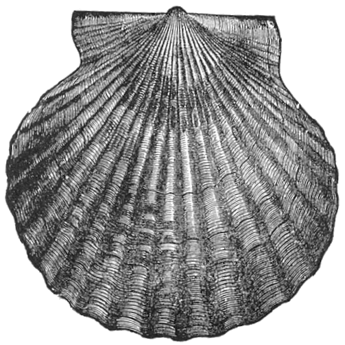 Illustration of a Bay Scallop. The original caption read: Fig. 357.--B. Pecten irradians. (From Binney-Gould.)